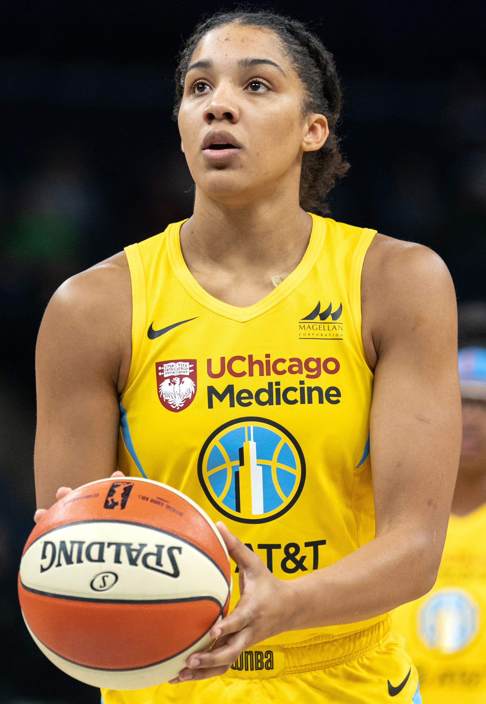 Chicago Sky player Gabby Williams in a game against the Minnesota Lynx